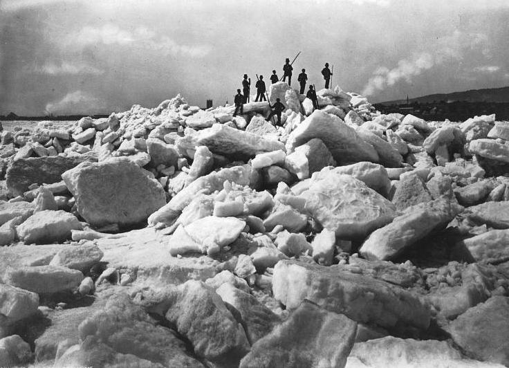 Photograph, St. Mary's current at Isle Ronde, Montreal, QC, 1875, Alexander Henderson, Silver salts on paper mounted on card - Albumen process - 27 x 35 cm